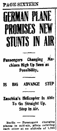 German Plane Promises New Stunts in Air - Zaschka's Helicopter Is Able To Go Straight Up, Stop in Air.